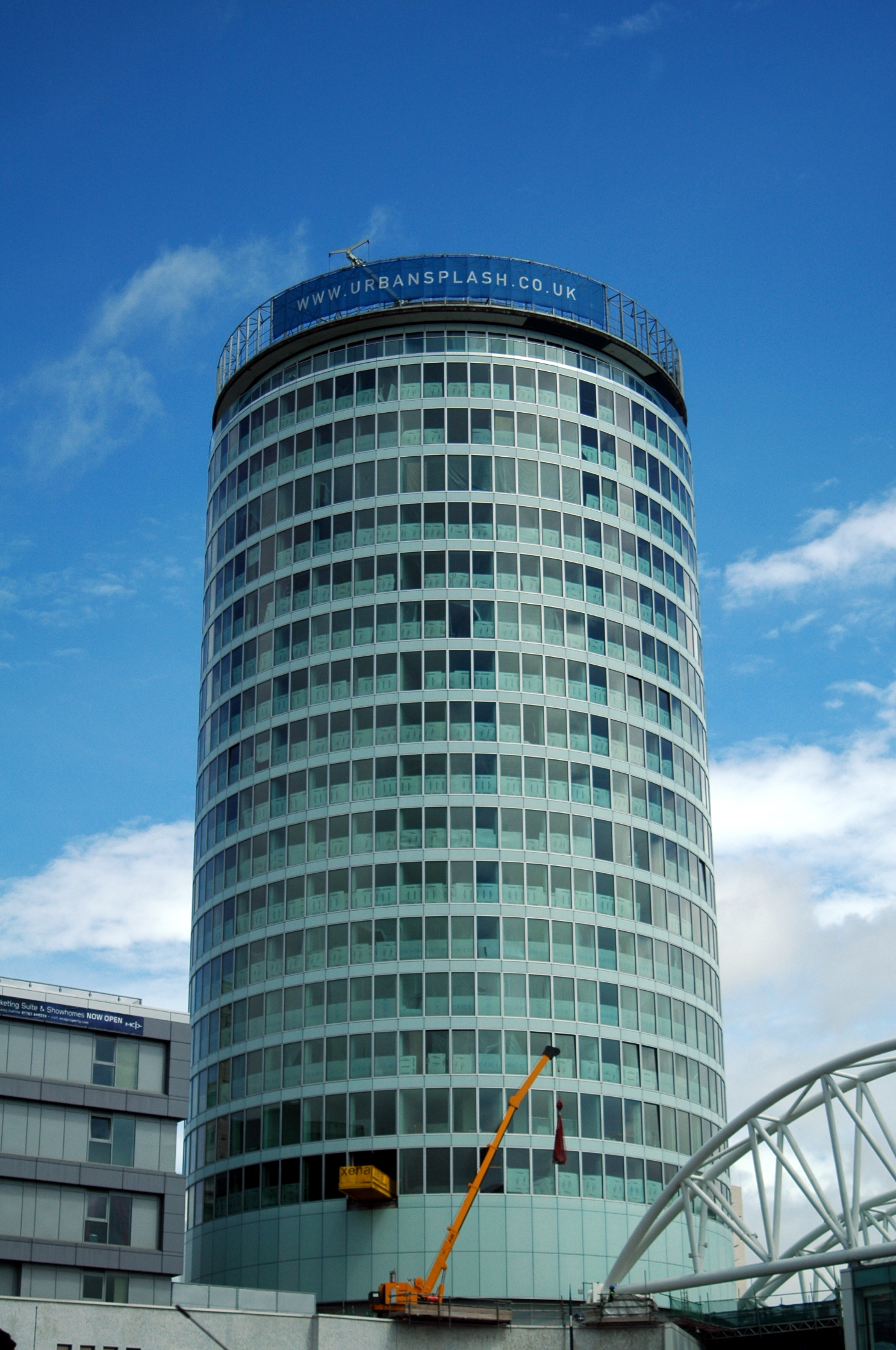 This is the Rotunda in Birmingham, England. It is an 81 metre tall building, currently undergoing a major refurbishment from an office building into luxury apartments by Urban Splash. It is Grade II listed.